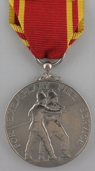 British medal for 20 years service in the Fire Service